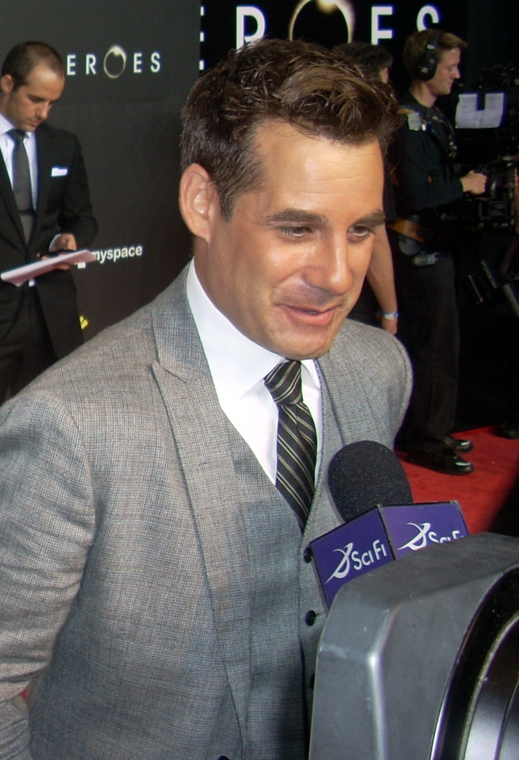 Adrian Pasdar at "Heroes" Season Three Premiere Party, Edison L.A., Downtown Los Angeles - Sept. 7, 2008